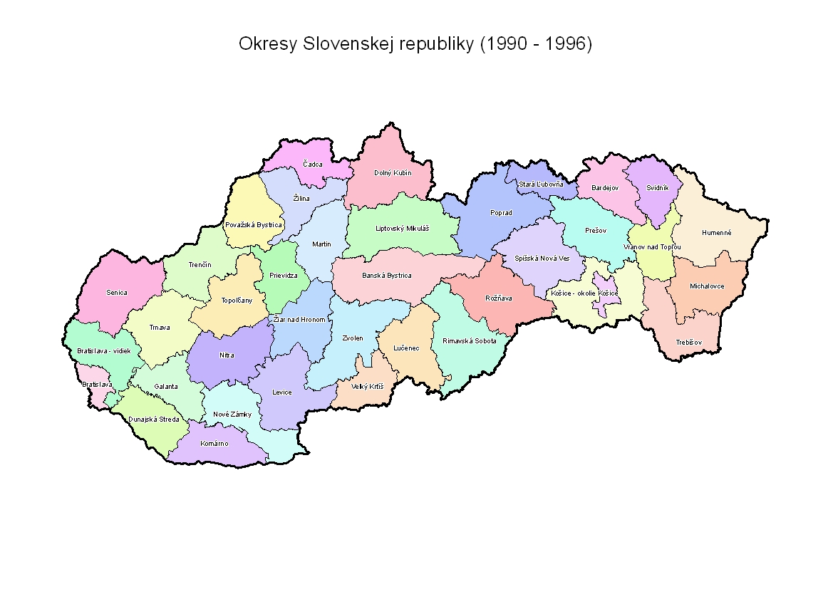 districts of Slovakia (1991-1996)